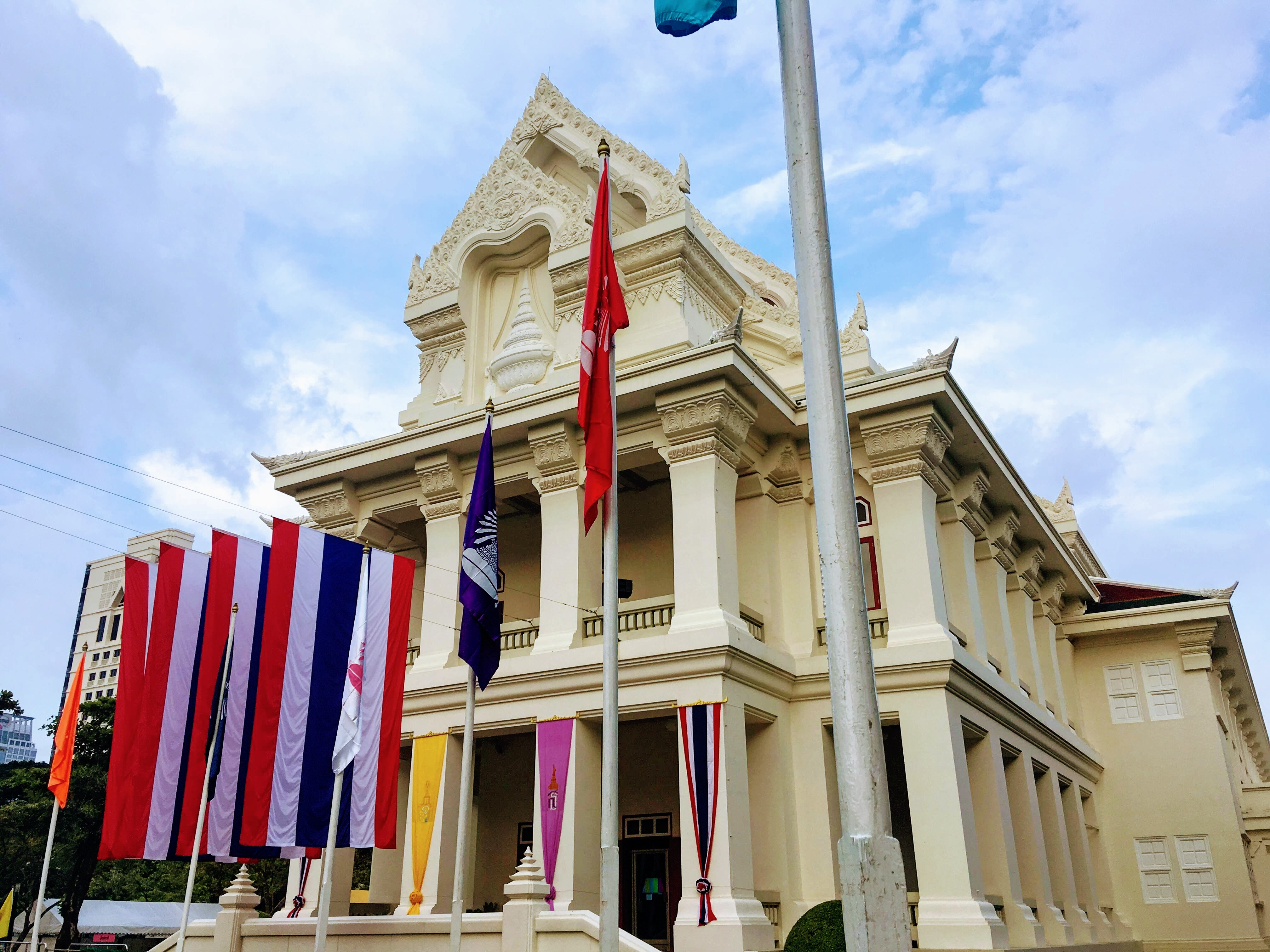 Chulalngkorn University Auditorium is decorated in royal theme to be the venue of graduation ceremony.